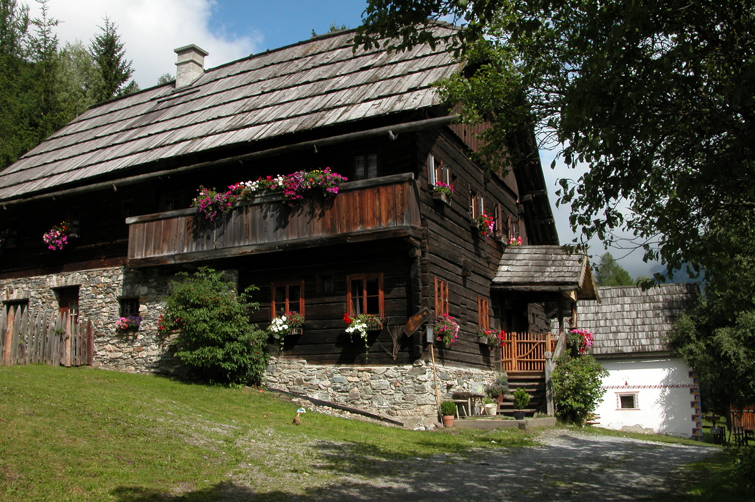 Church St. Rupert in Weißpriach Lungau/Austria - sexton's house.